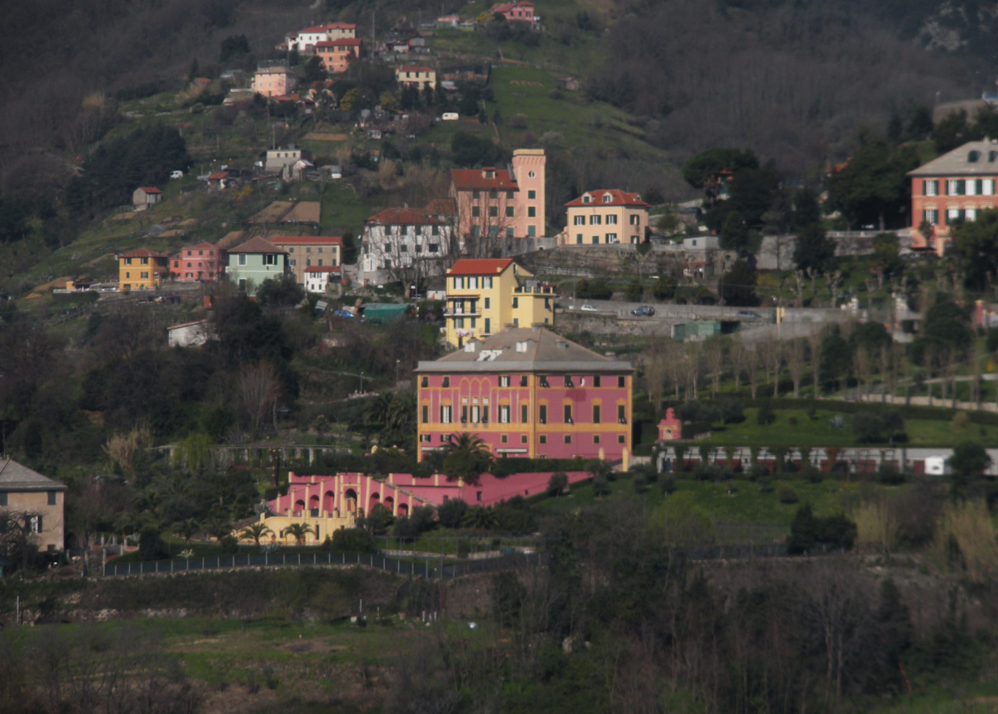 Genoa (Italy), quarter of Bolzaneto, Murta, Villa Clorinda